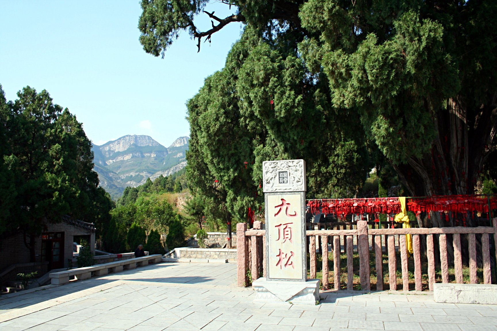 Photograph of an old pine tree near the Four-Gates Pagoda in Shandong Province, China. The inscription on the tablet reads "Jiu Ding Song", "9-Tip Pine".